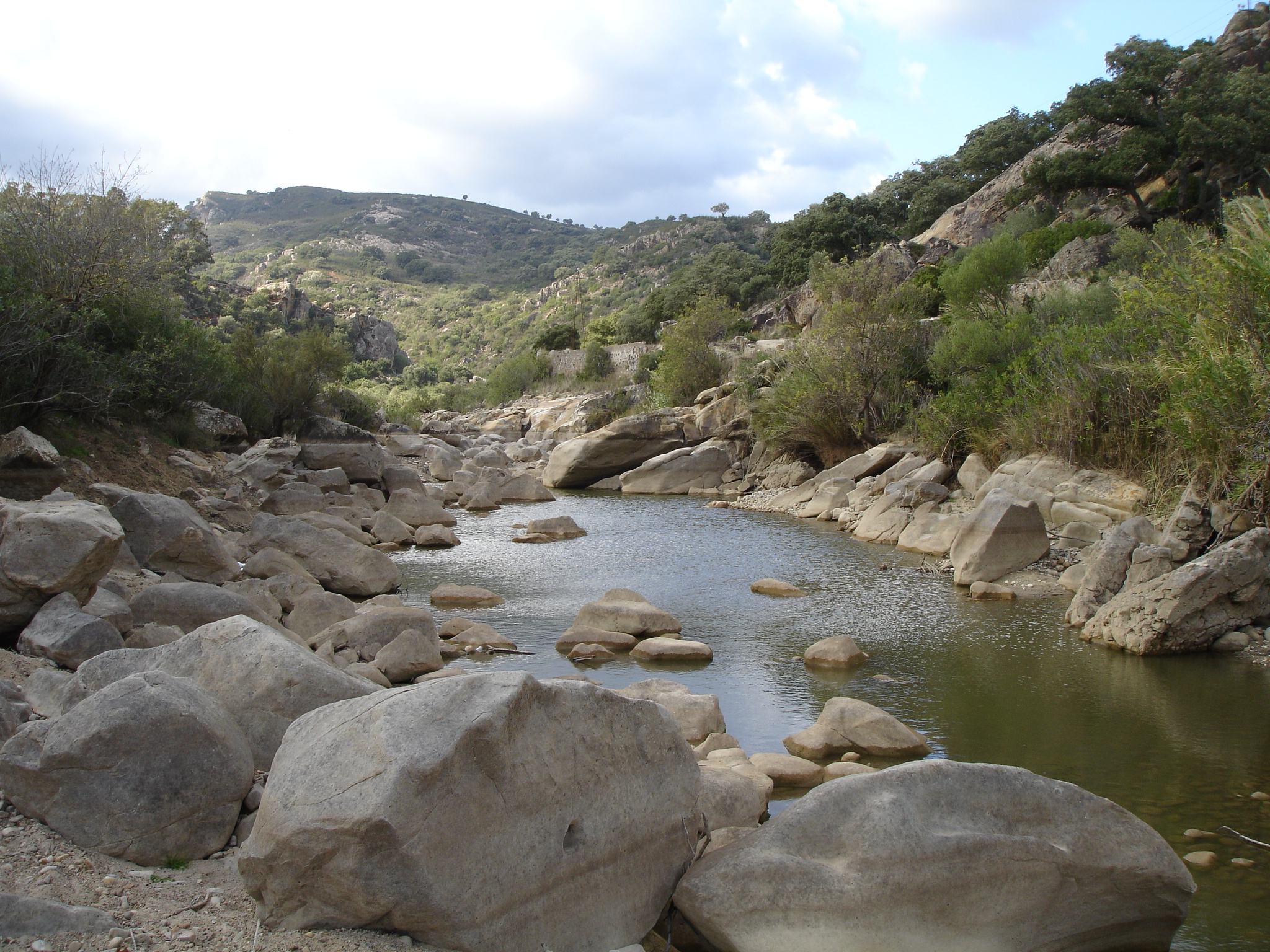 Hozgarganta river, Jimena, Spain